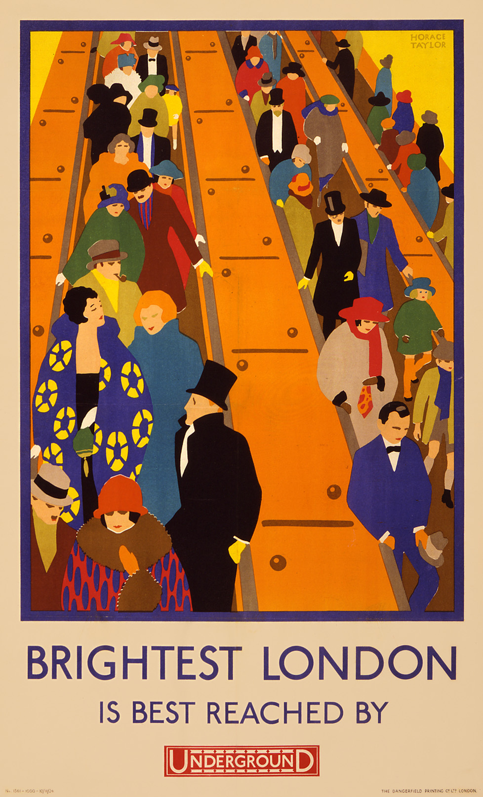 Brightest London is best reached by Underground. Advertising poster for the London Underground Limited showing brightly dressed people on escalators of the London subway.